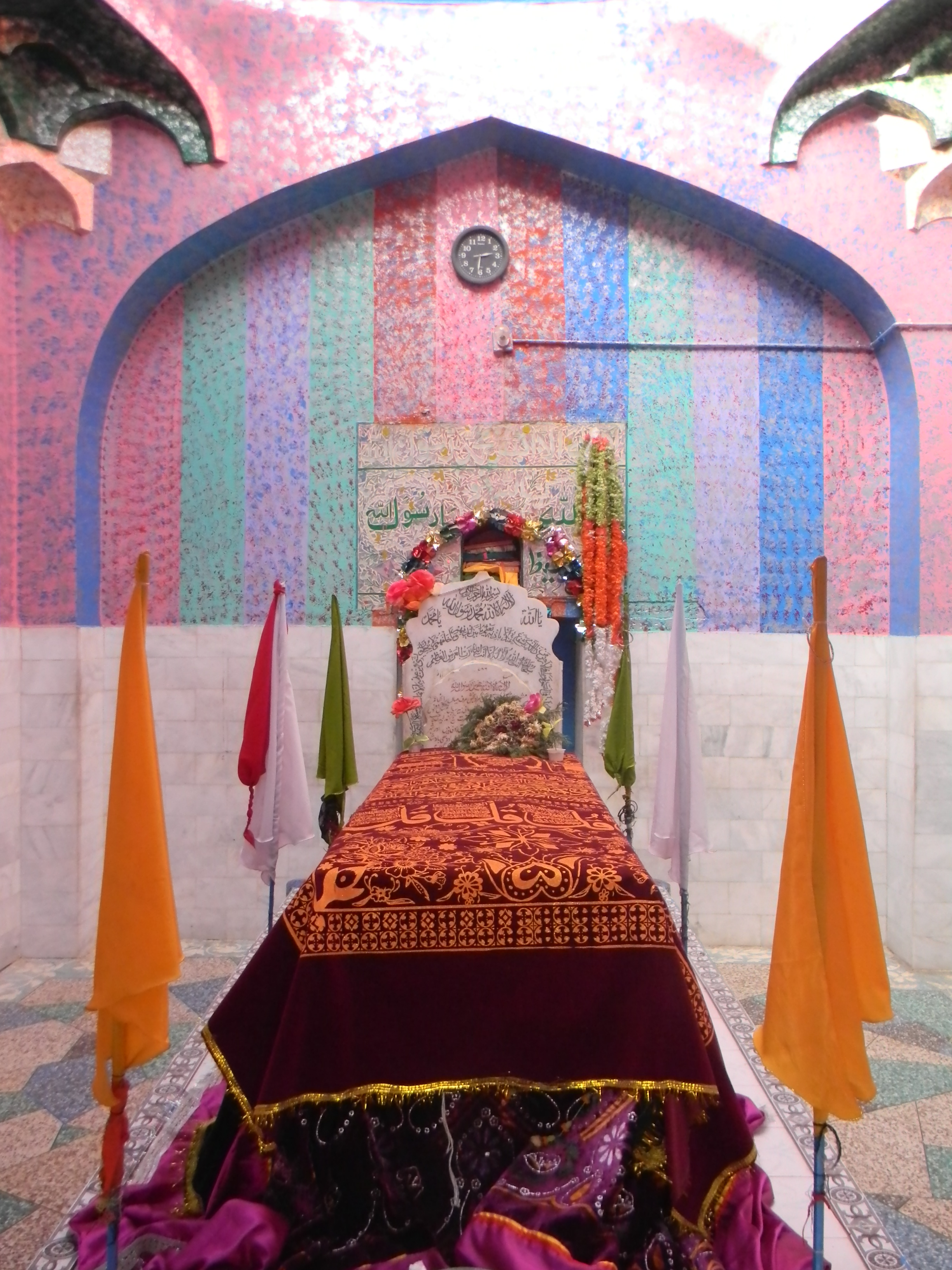 Heer Ranjha's tomb in Jhang..for Punjabi WIkipedia